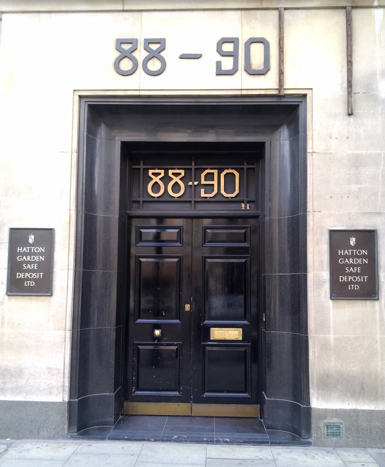 See 88-90 Hatton Garden for more details.